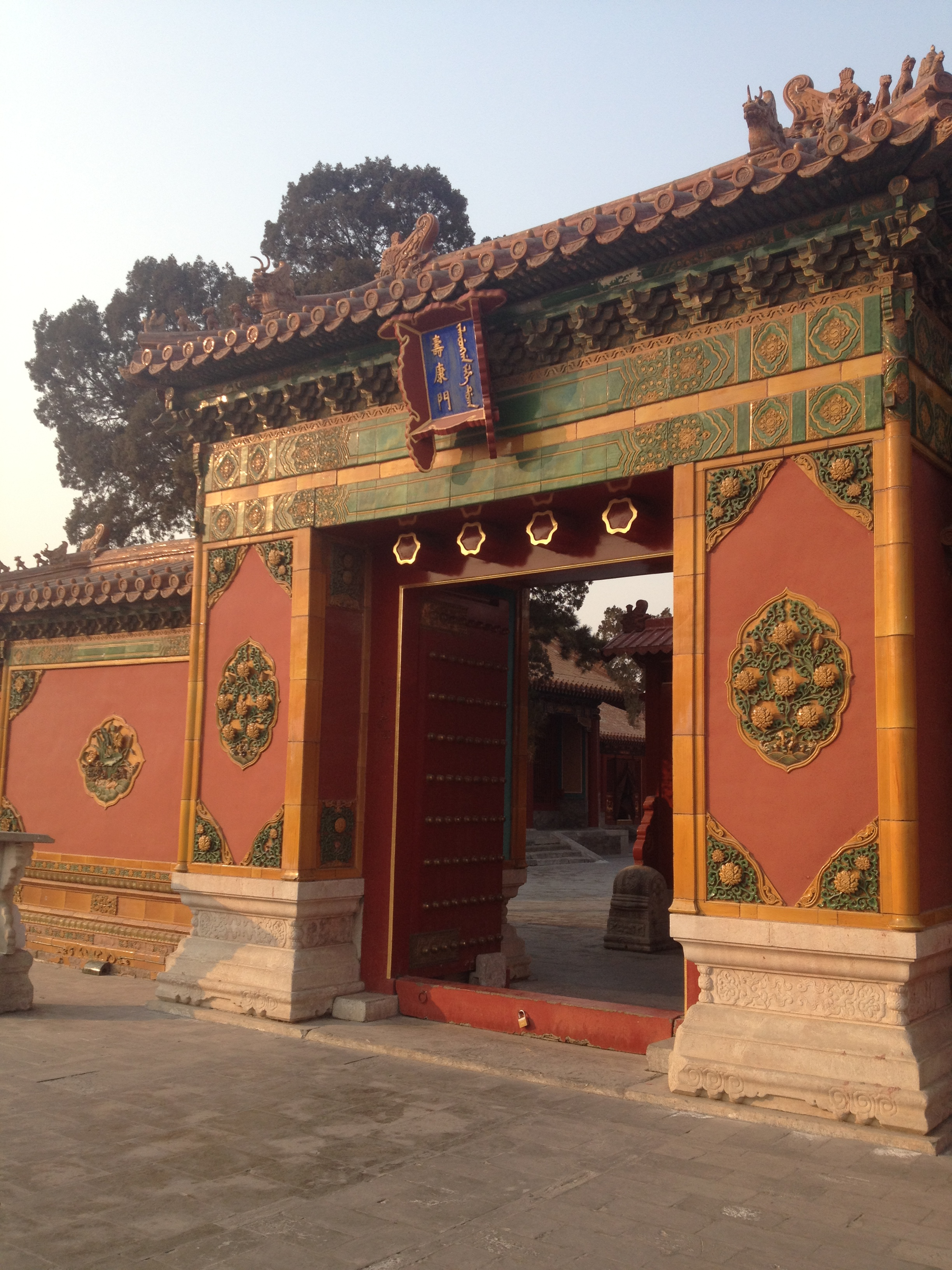 Palace of Longevity and Good Health, northwestern area (view NW)